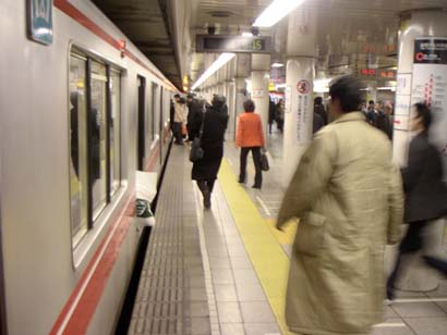 Shinjuku Station of Marunouchi Line, one of subway line of Tokyo, Japan.